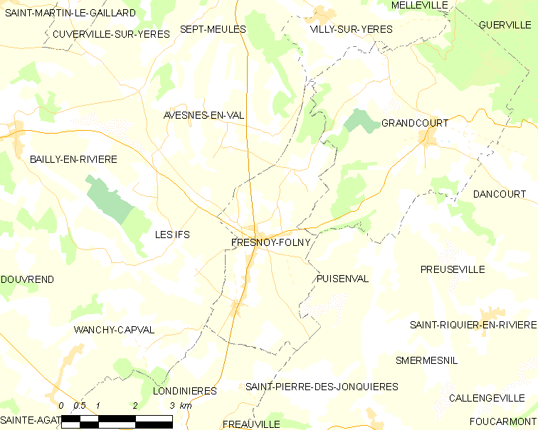 Map of French municipality Fresnoy-Folny